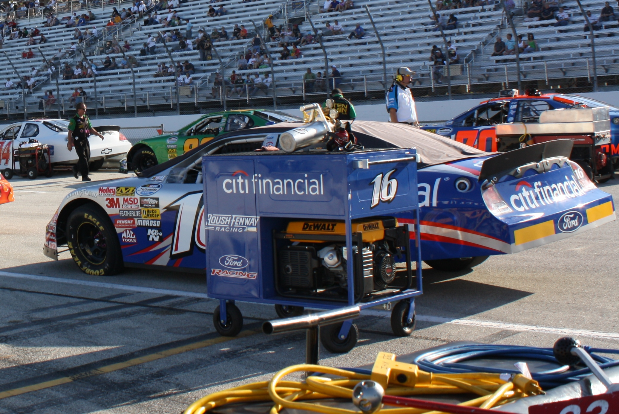 NASCAR driver Ricky Stenhouse, Jr.s Ford at the 2009 Northern 250 Nationwide Series race at the Milwaukee Mile.